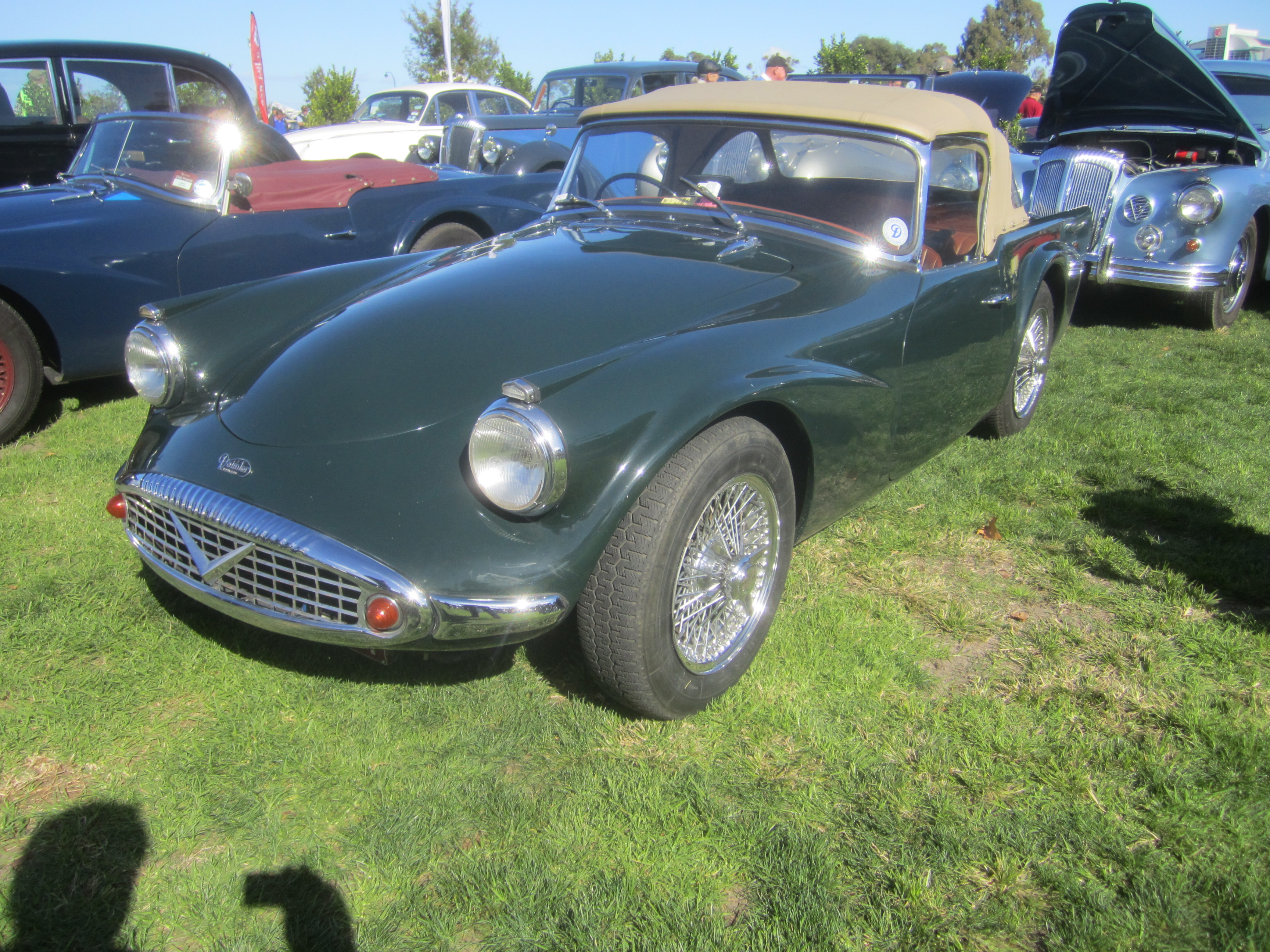 Originally known as the Dart, but Dodge didn't want there cars name being used so was changed to the SP250, which was a fibreglass body 2+2 sports car, although very little room in the back seat. It was built from 1959-64 2648 built. Engine; 2548cc alloy Daimler V8.